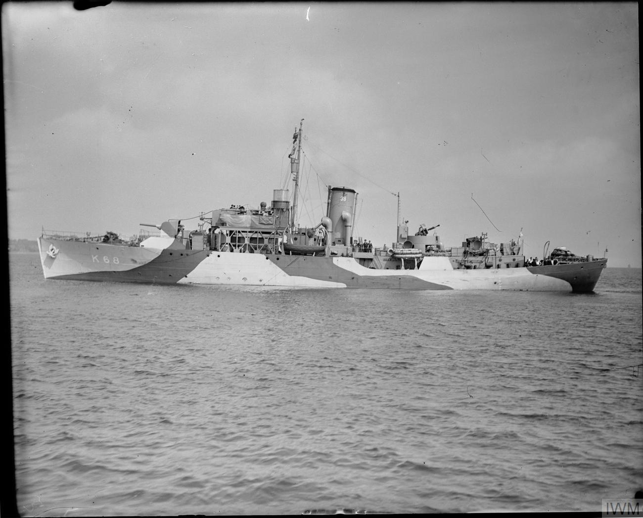 Photograph of British Flower class corvette HMS Jonquil (K68).